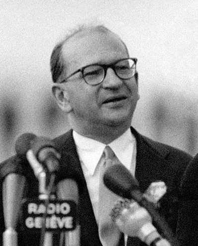 President of the French Council Edgar Faure attending the Big Four Conference. Geneva, 18th July 1955